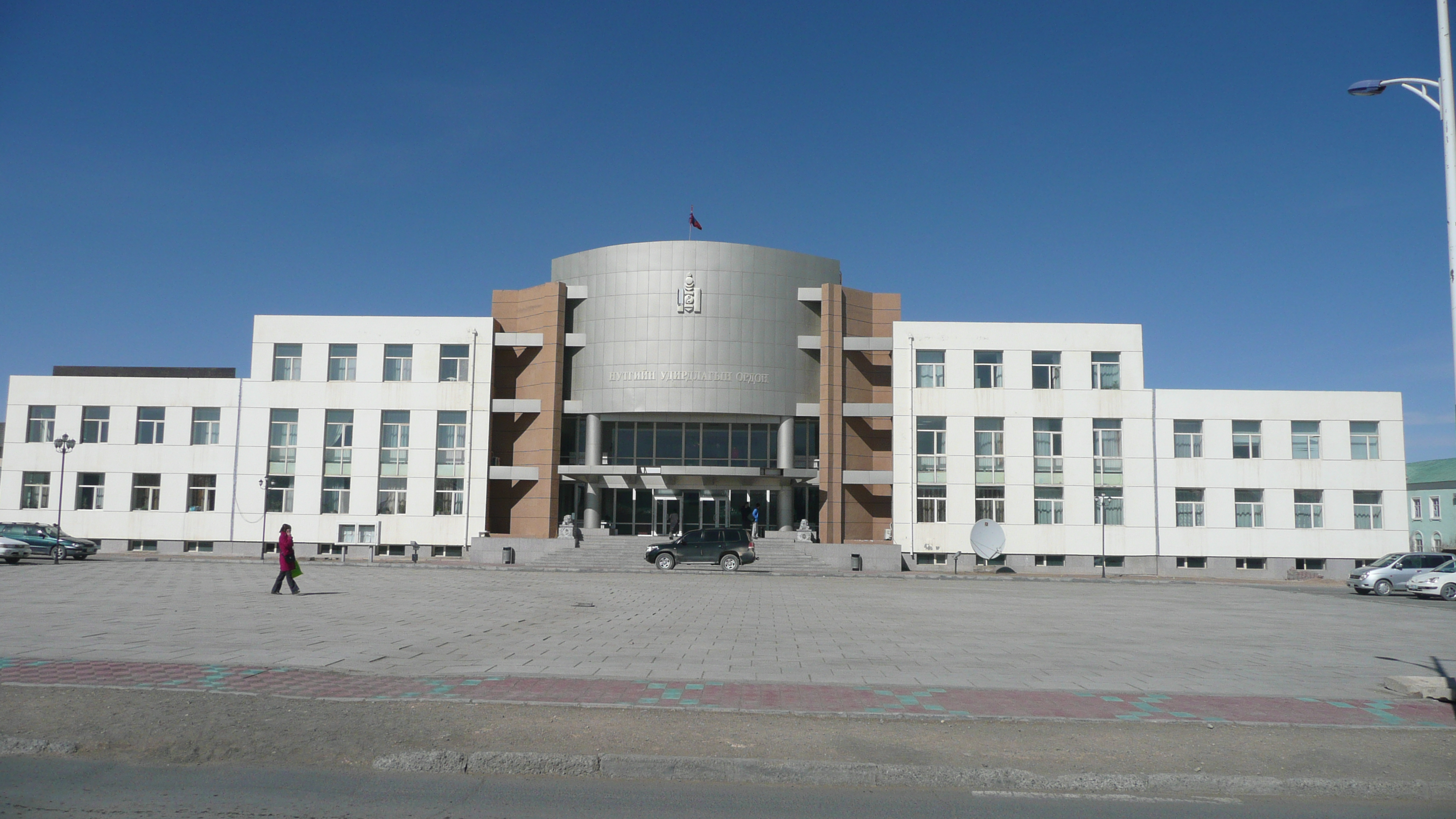 Aimag administration in Dalanzadgad